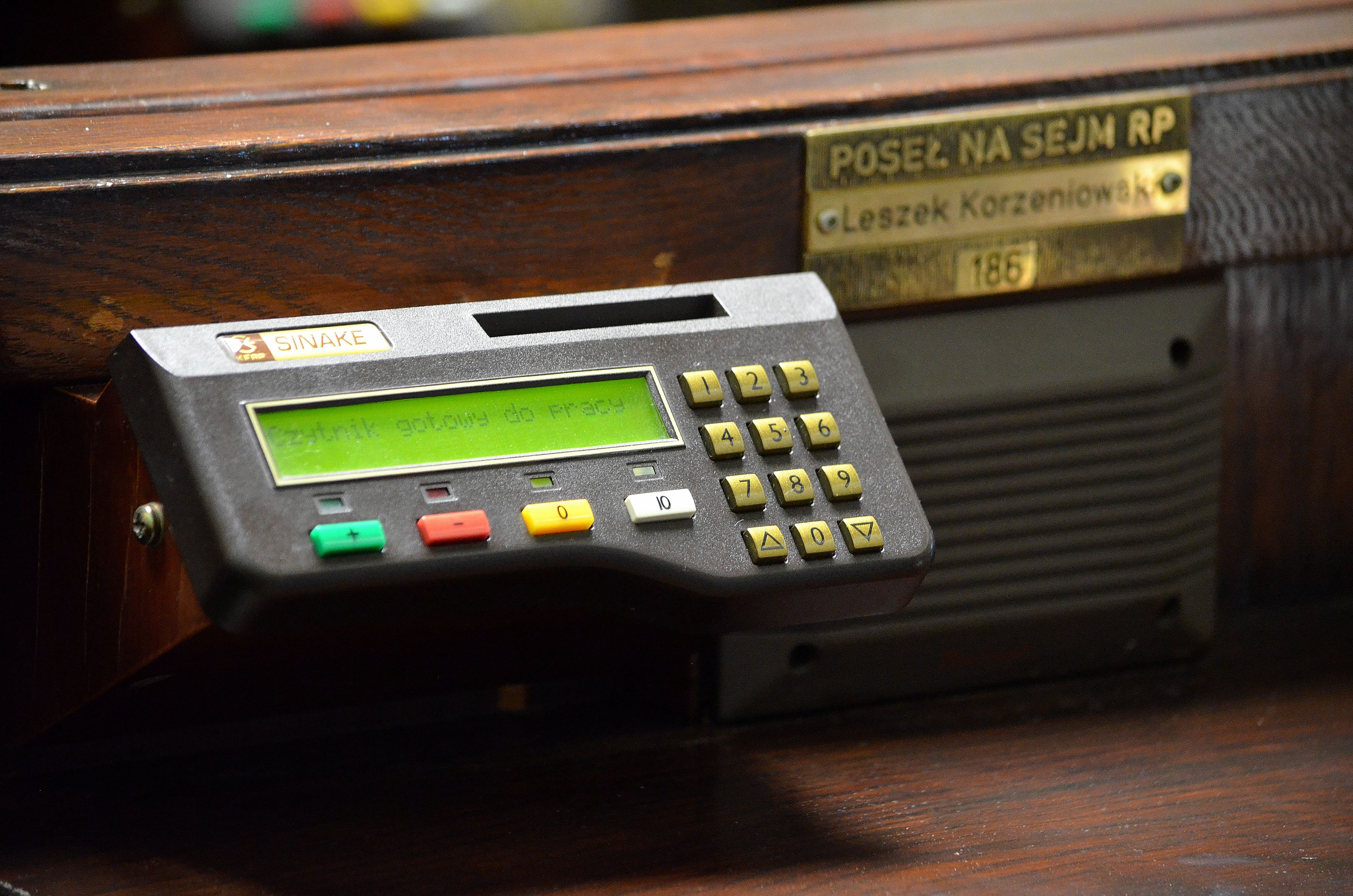 Voting device in the Plenary Hall of the Sejm